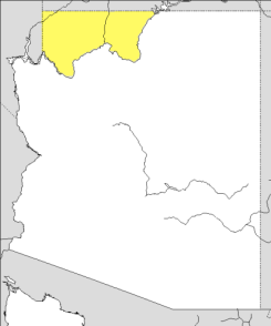 Map of the Arizona Strip, the part of Arizona north of the Colorado River. Made an outline map on OMC then edited it